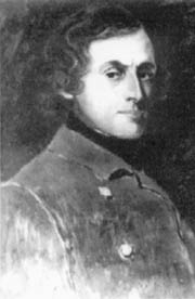 William Dyce